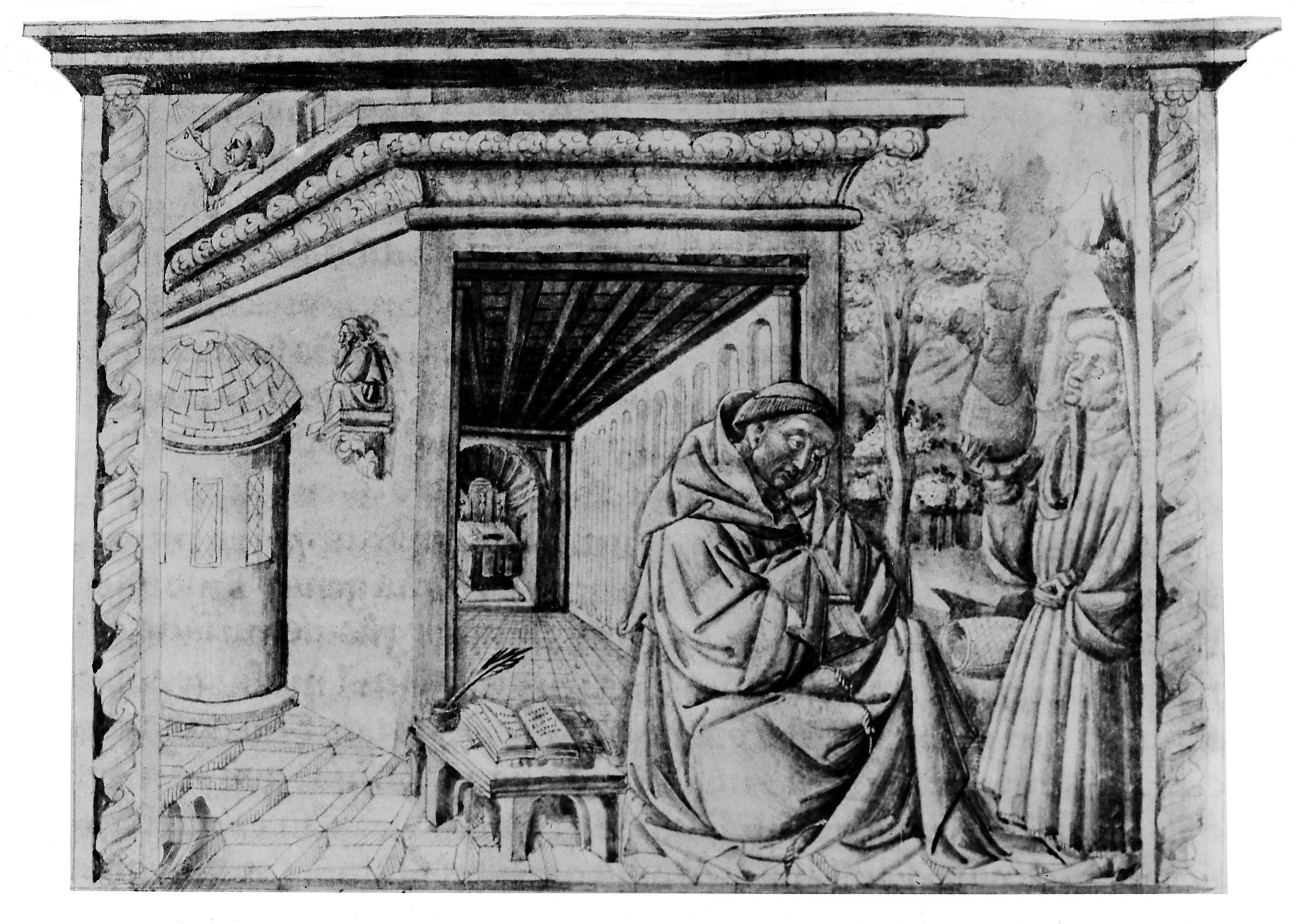 Portrait of Roger Bacon. Iconographic Collections Keywords: Roger Bacon